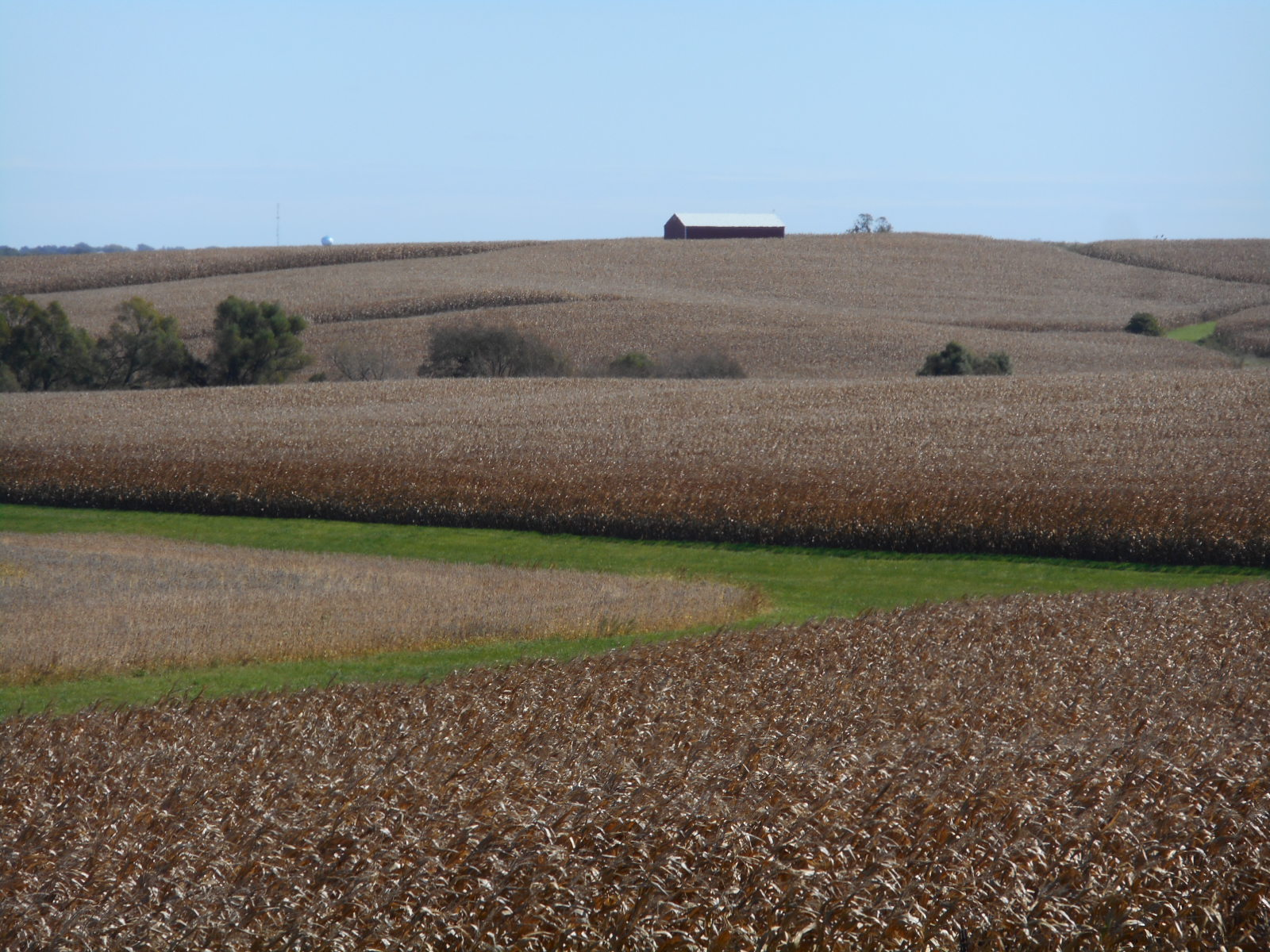 rolling corn fields at harvest time